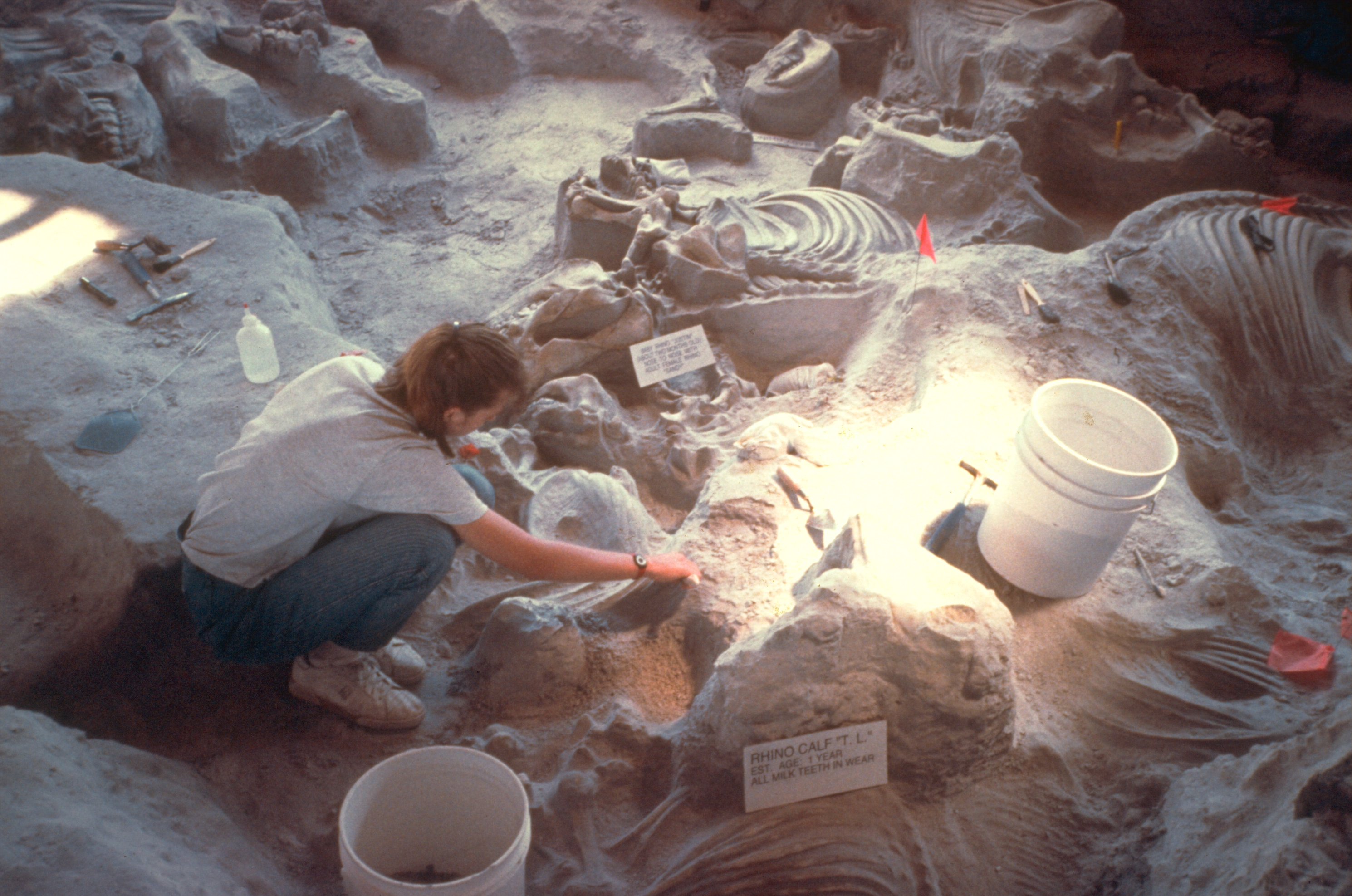 Ashfall Fossil Beds - Baby rhino skeleton "T. L." in the front. See Skeleton Map